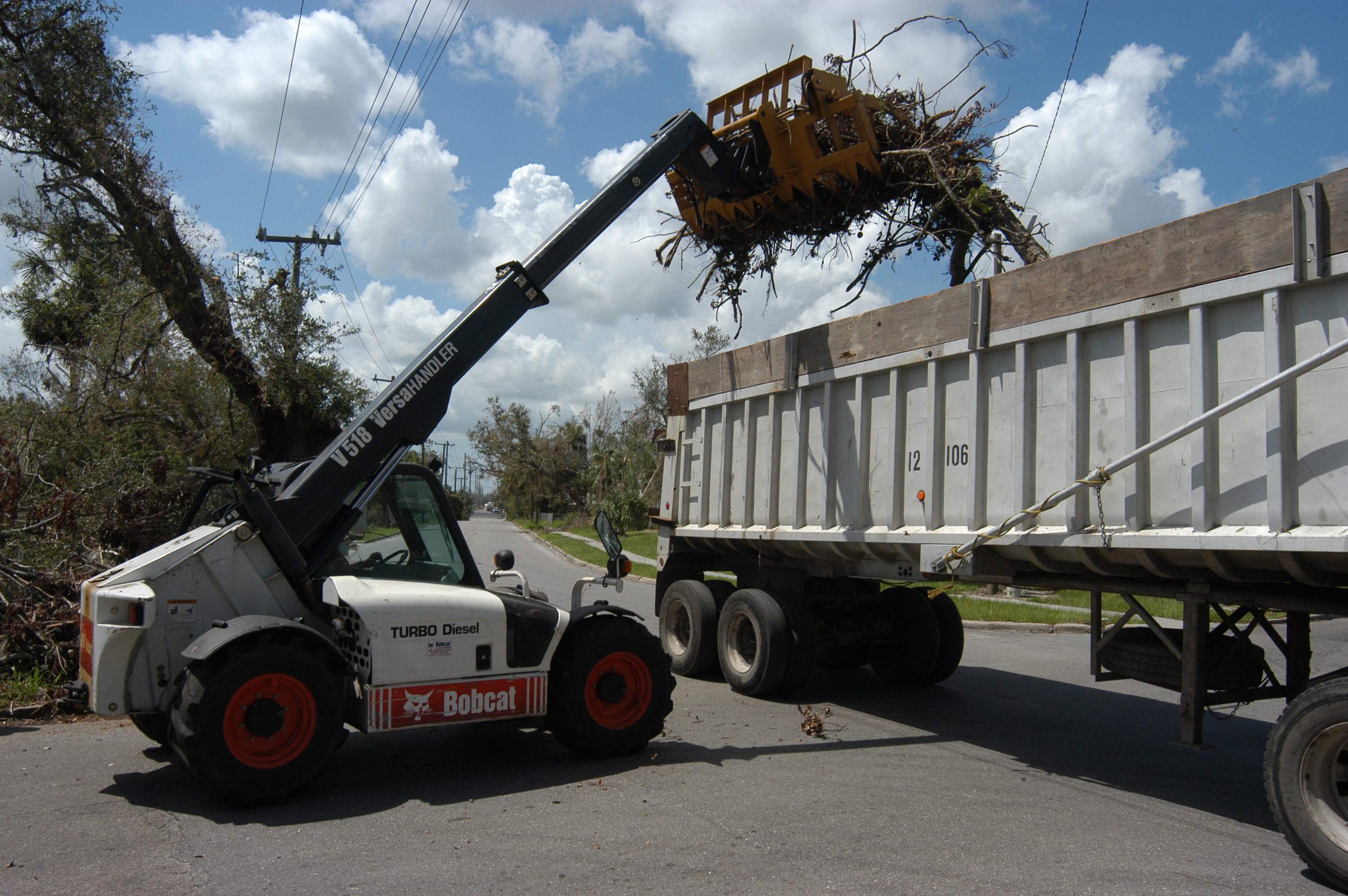 Bobcat V518 Versahandler telescopic handler – Arcadia, FL, August 29, 2004 -- Workers clear debris from the streets of this town hit by Hurricane Charley. FEMA Photo/Mark Wolfe